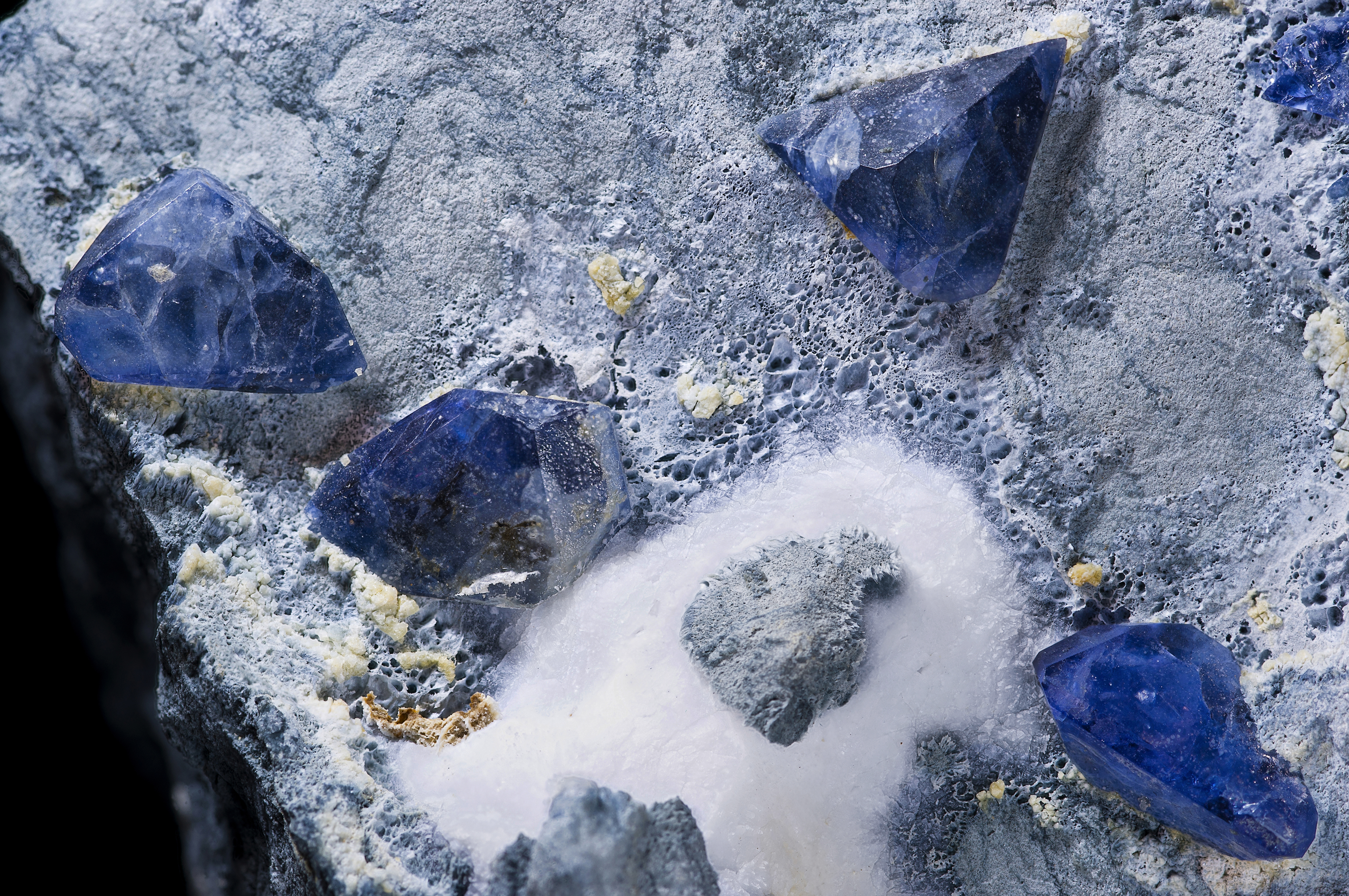 Benitoite Locality: Dallas Gem Mine (Benitoite Mine; Benitoite Gem Mine; Gem Mine), Dallas Gem Mine area, San Benito River headwaters area, New Idria District, Diablo Range, San Benito County, California, USA View 46 mm